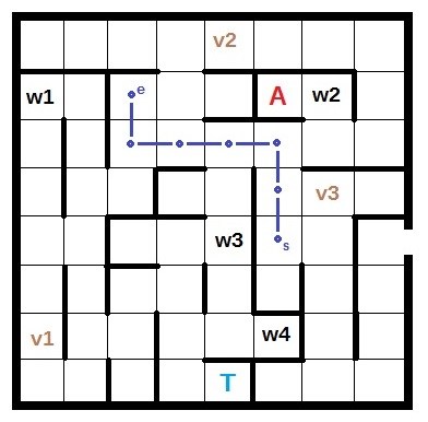 Example of Labyrinth game map